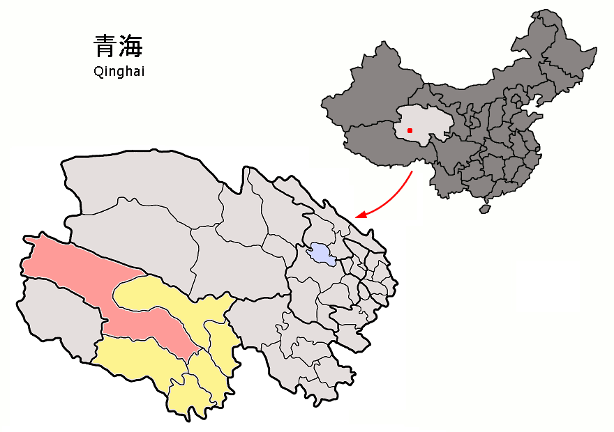 Location of Zhidoi County (pink) and Yushu Prefecture (yellow) within Qinghai province of China Map drawn in september 2007 using various sources, mainly : Qinghai province administrative regions GIS data: 1:1M, County level, 1990 Qinghai Counties map from "Plateau Perspectives" (the limits of some county-level subdivisions may not be accurate)